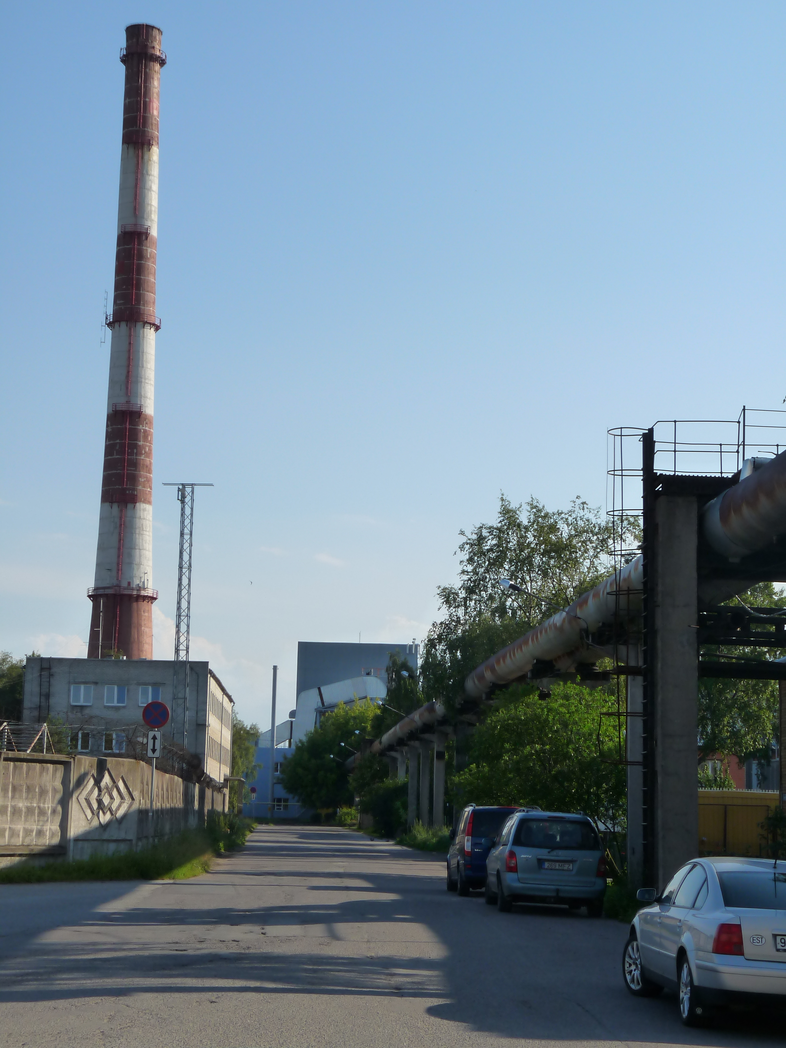 Seemne street in Tallinn, Estonia